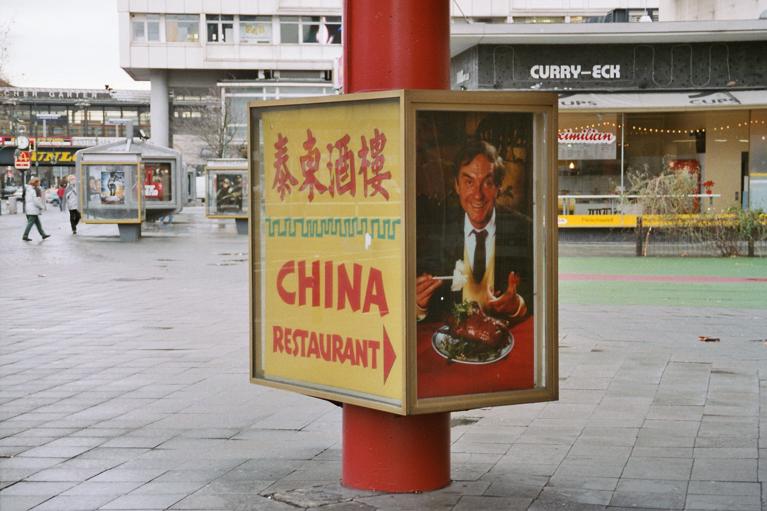 Commercial with german actor Harald Juhnke in Berlin, Germany